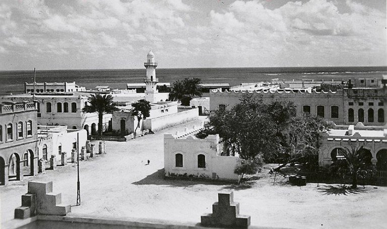 OlderDjibouticity